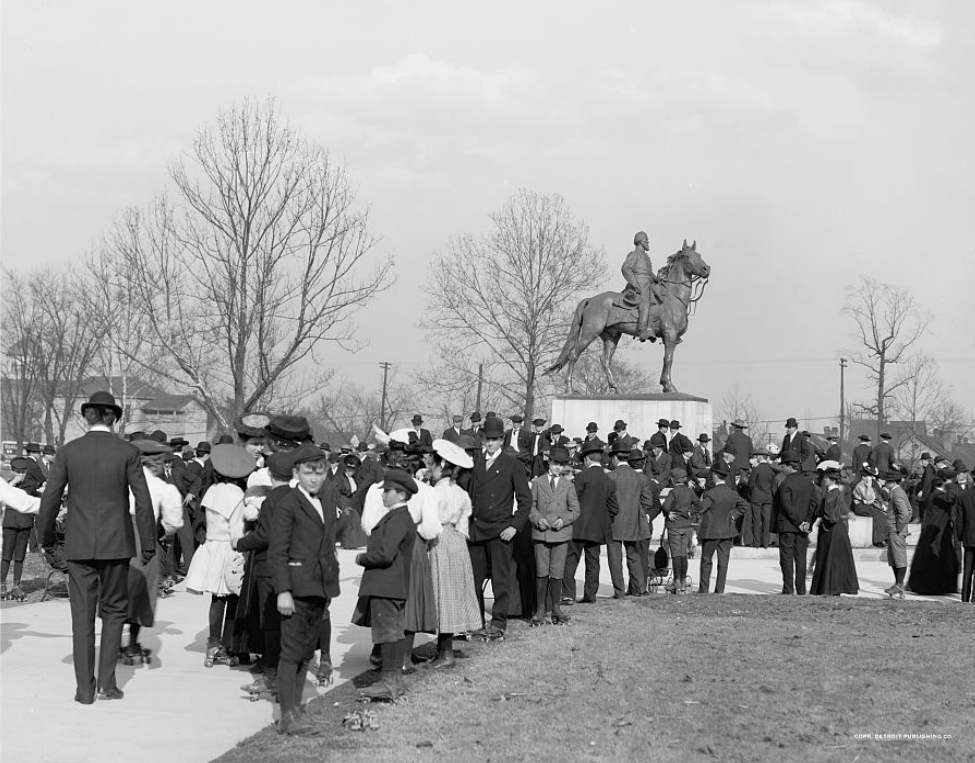 General Forrest Monument, Memphis, Tennessee, 1906.